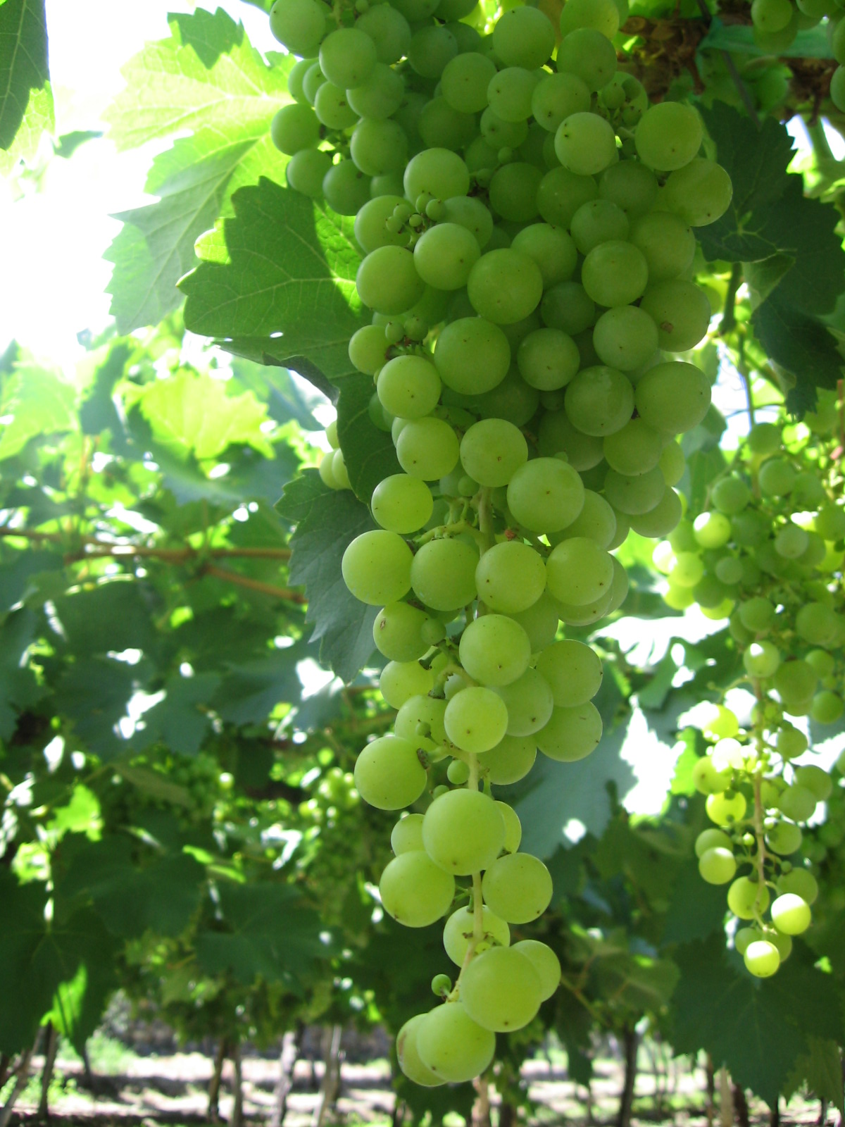 Bunch of Torrontés grapes, at the Bodega Felix Lavaque, outside Cafayate, Argentina. Picture taken with my Cannon A520 (rest of details below.)